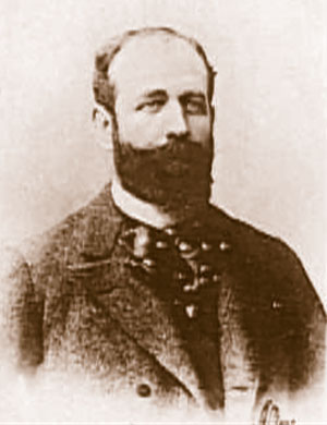 Jean-François Raffaëlli